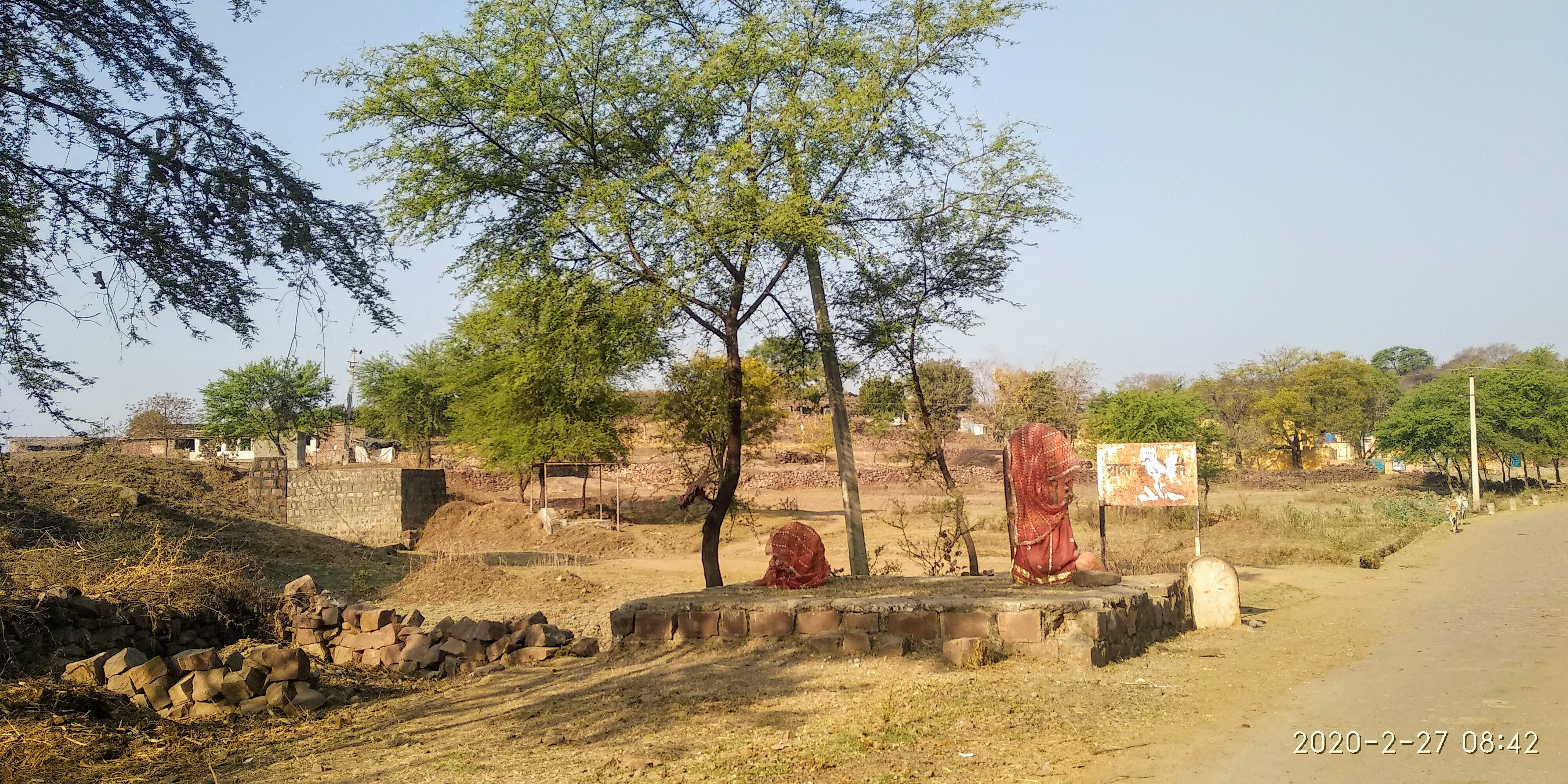 Sati ka Chabootara